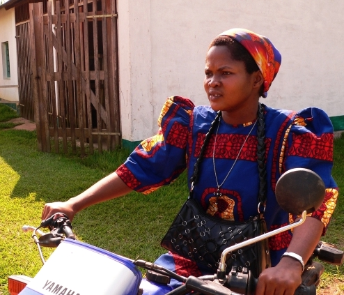 A nun from the Theresiennes Sisters of Basankusu riding a Yamaha